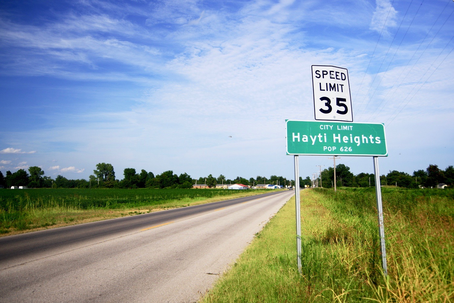 Missouri Route 84 entering Hayti Heights, Missouri, United States.